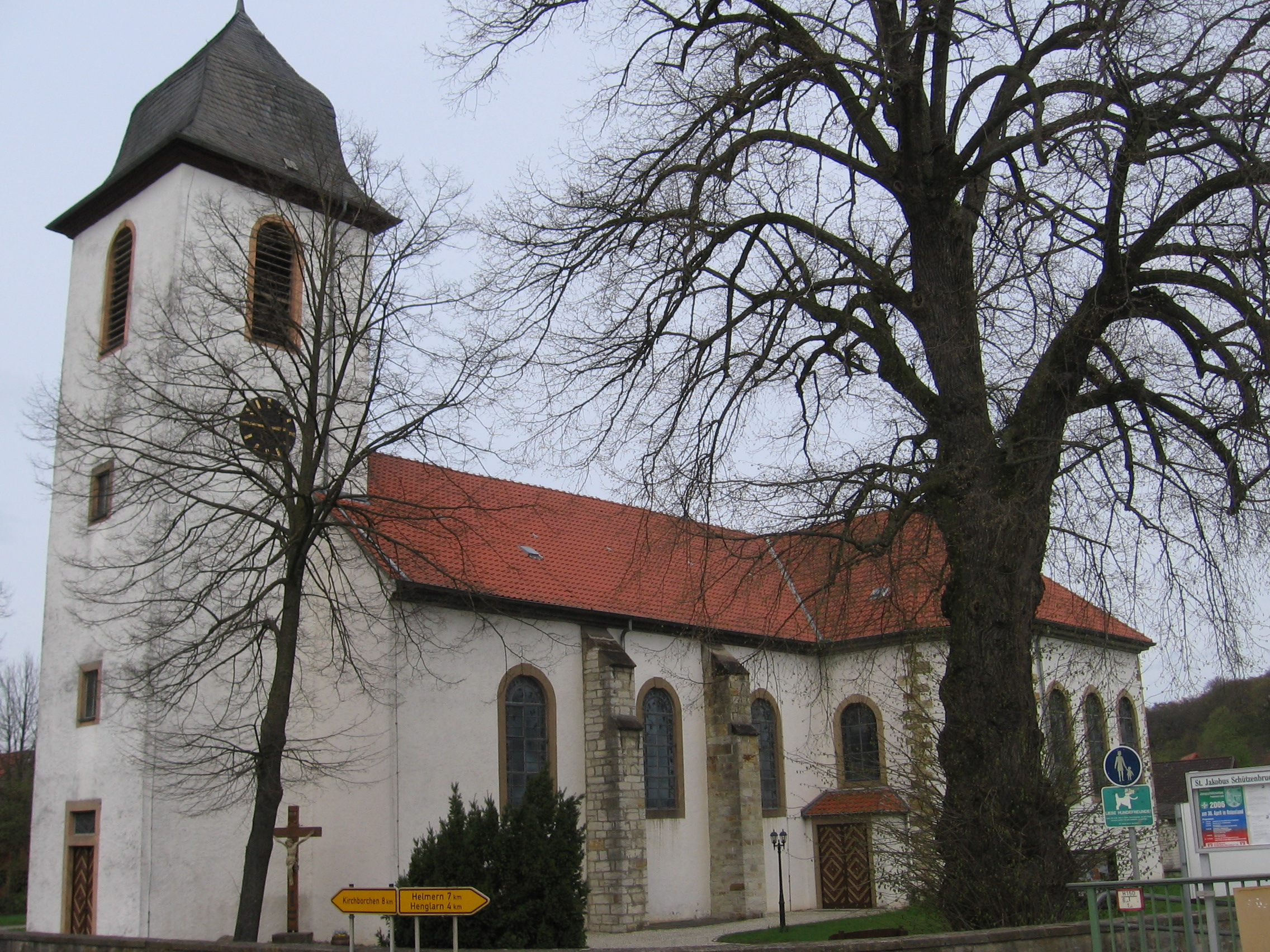 Catholic church of the German village Etteln, North Rhine-Westphalia.